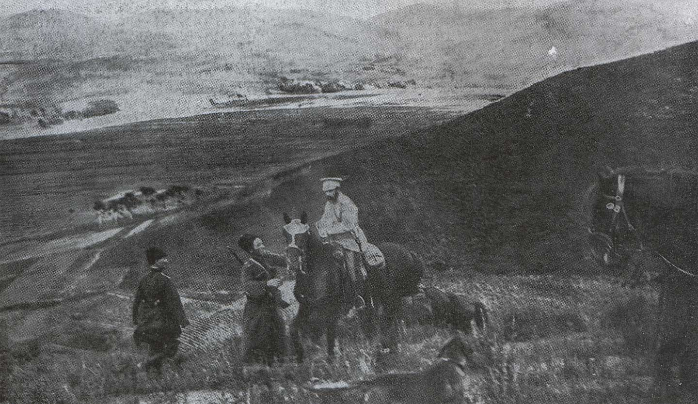 Russian General Aleksey Kuropatkin during the Battle of Liaoyang.